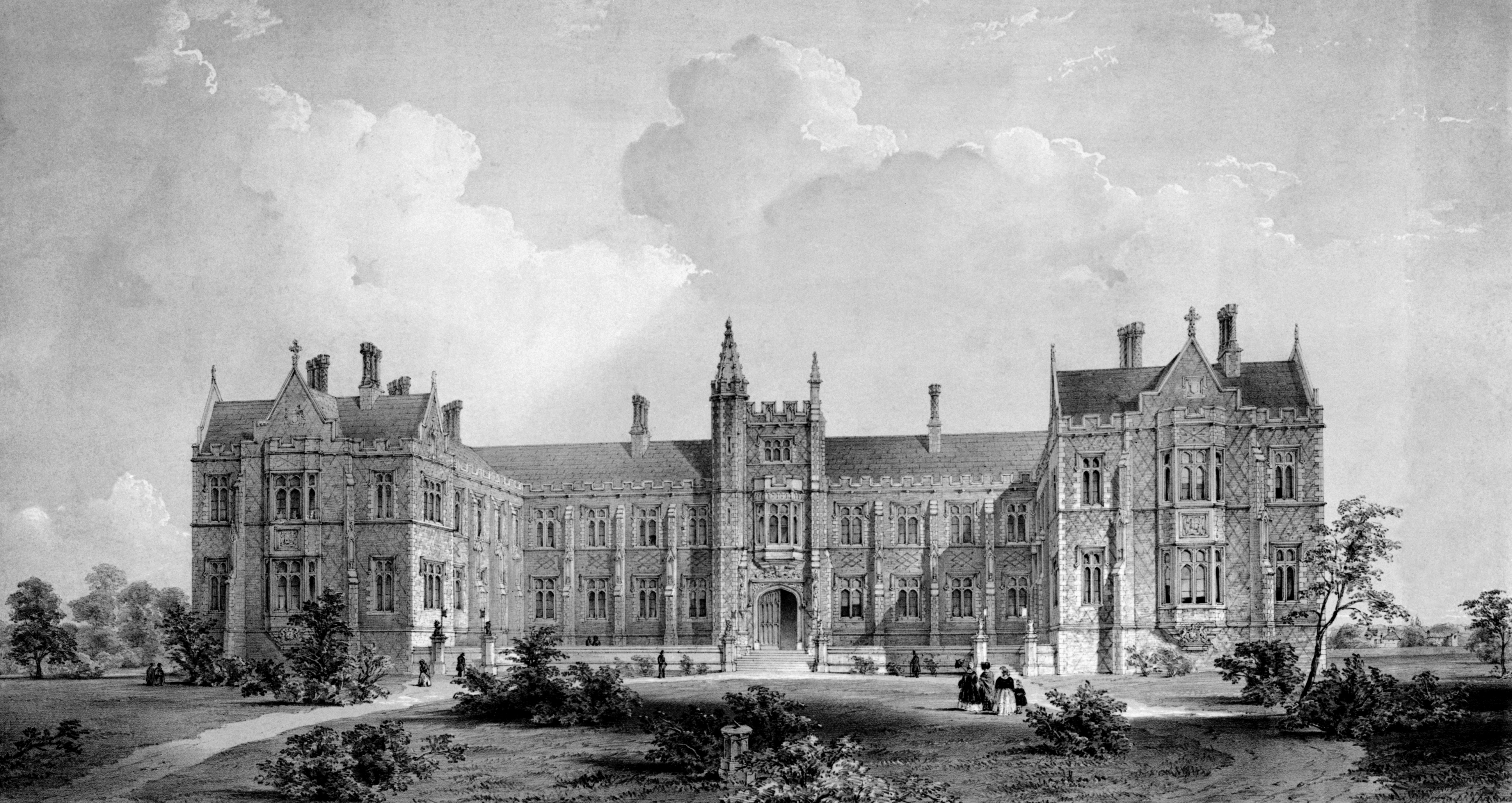 Brompton Hospital: foundation stone laid 11th June, 1844. Wellcome Images Keywords: brompton hoispital for the consumption and diseases of the chest; T.G. Dutton